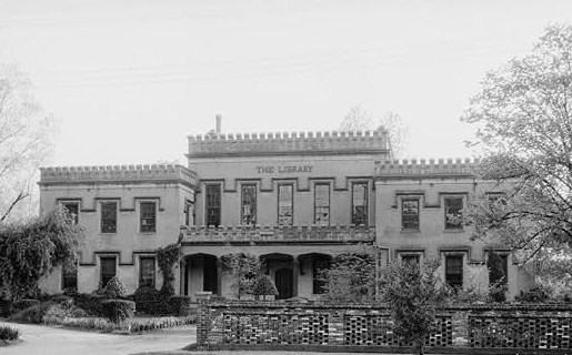 Old Academy of Richmond County, 540 Telfair Street, Augusta (Richmond County, Georgia) cropped